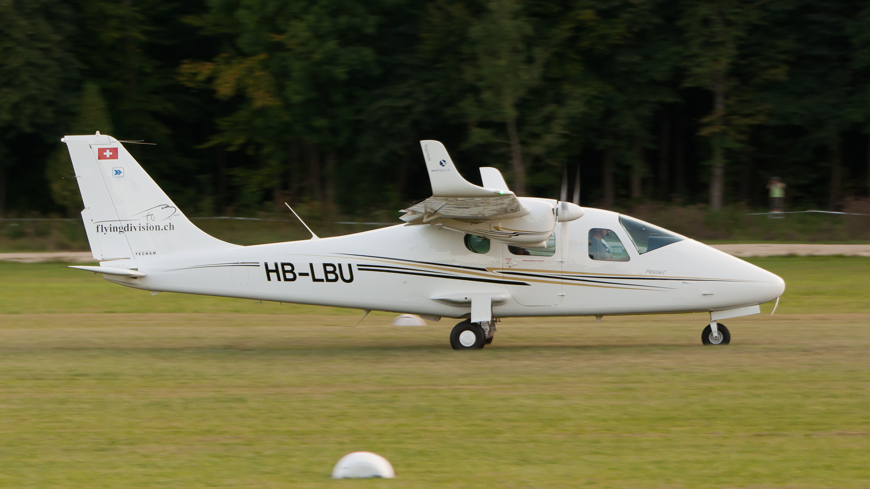 Tecnam P2006T (HB-LBU, cn 071) at "Oldtimer Fliegertreffen" Hahnweide 2011 (EDST). This photo was taken at the 16th Oldtimer Fliegertreffen Hahnweide from September 2 to 4, 2011.